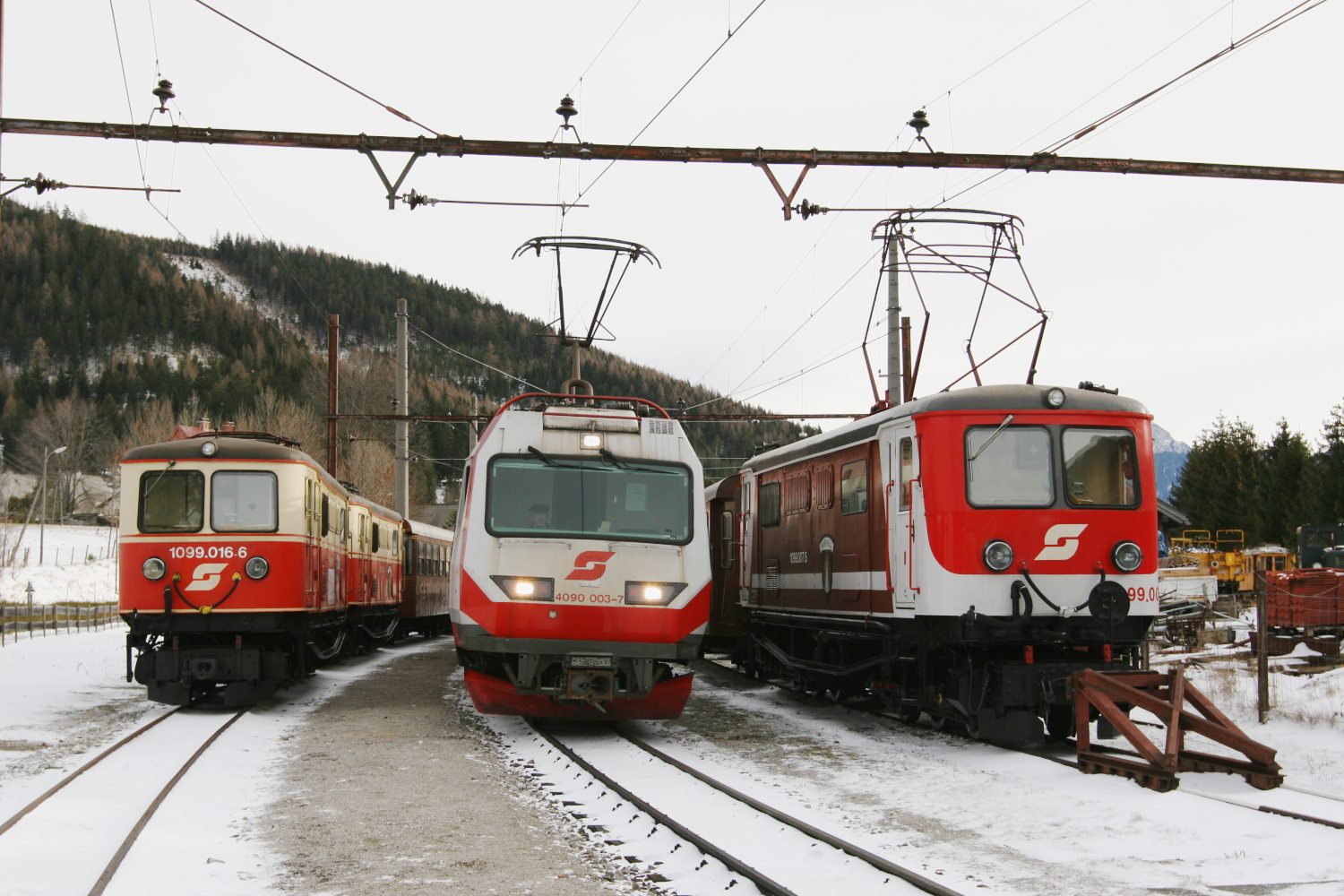 Locomotives of the Mariazellerbahn in Mariazell, on the left two 1099, in the middle EMU 4090 003-7 and on the right newly painted 1099 007-5 can be seen.